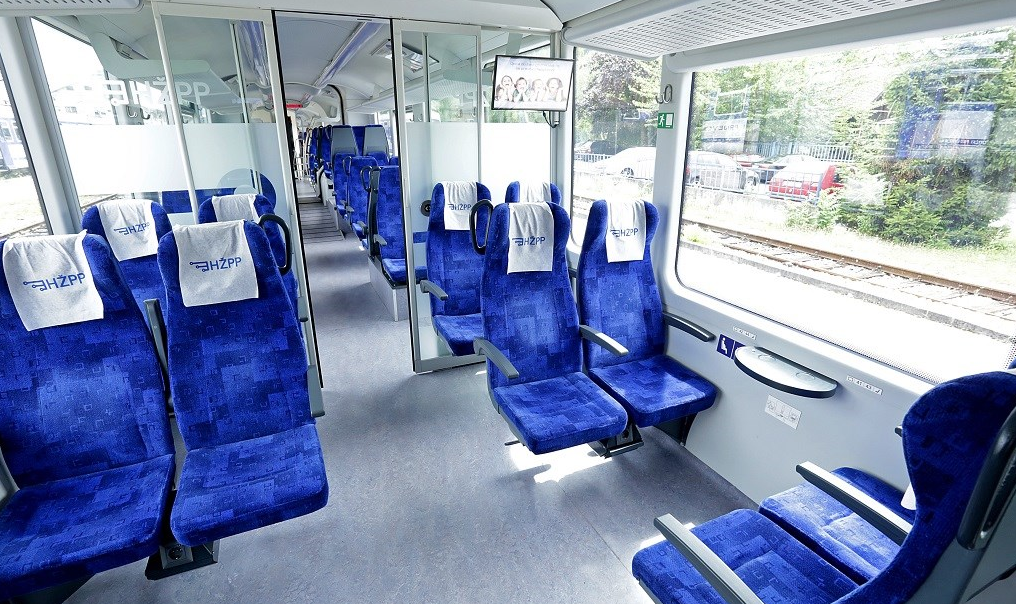 Interior